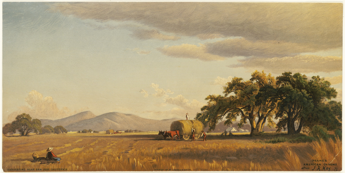 File name: 07_11_000150 Title: Harvesting near San Jose, California Creator/Contributor: Key, John Ross, 1832-1920 (artist); L. Prang & Co. (publisher) Copyright date: 1874 Genre: Chromolithographs; Landscape prints Location: Boston Public Library, Print Department Rights: No known restrictions Flickr data on 2011-08-08: Camera: Sinar AG Sinarback 54 FW, Sinar m License: CC BY 2.0 User: Boston Public Library BPL